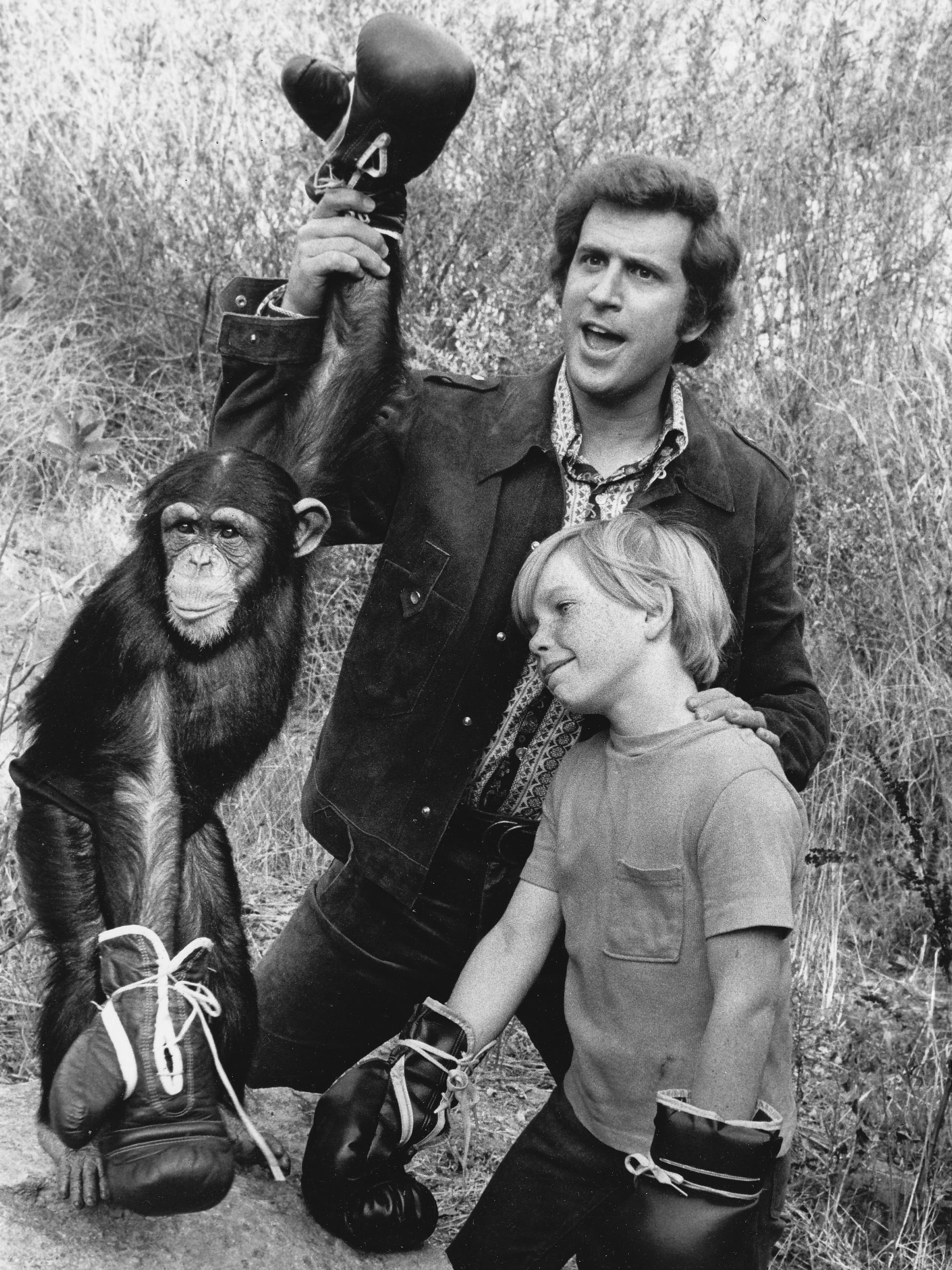 Publicity photo of American actors, Ted Bessell and Scott Kolden with chimpanzee performer, "Buttons", promoting the January 13, 1972 premiere of the CBS television series Me and the Chimp.